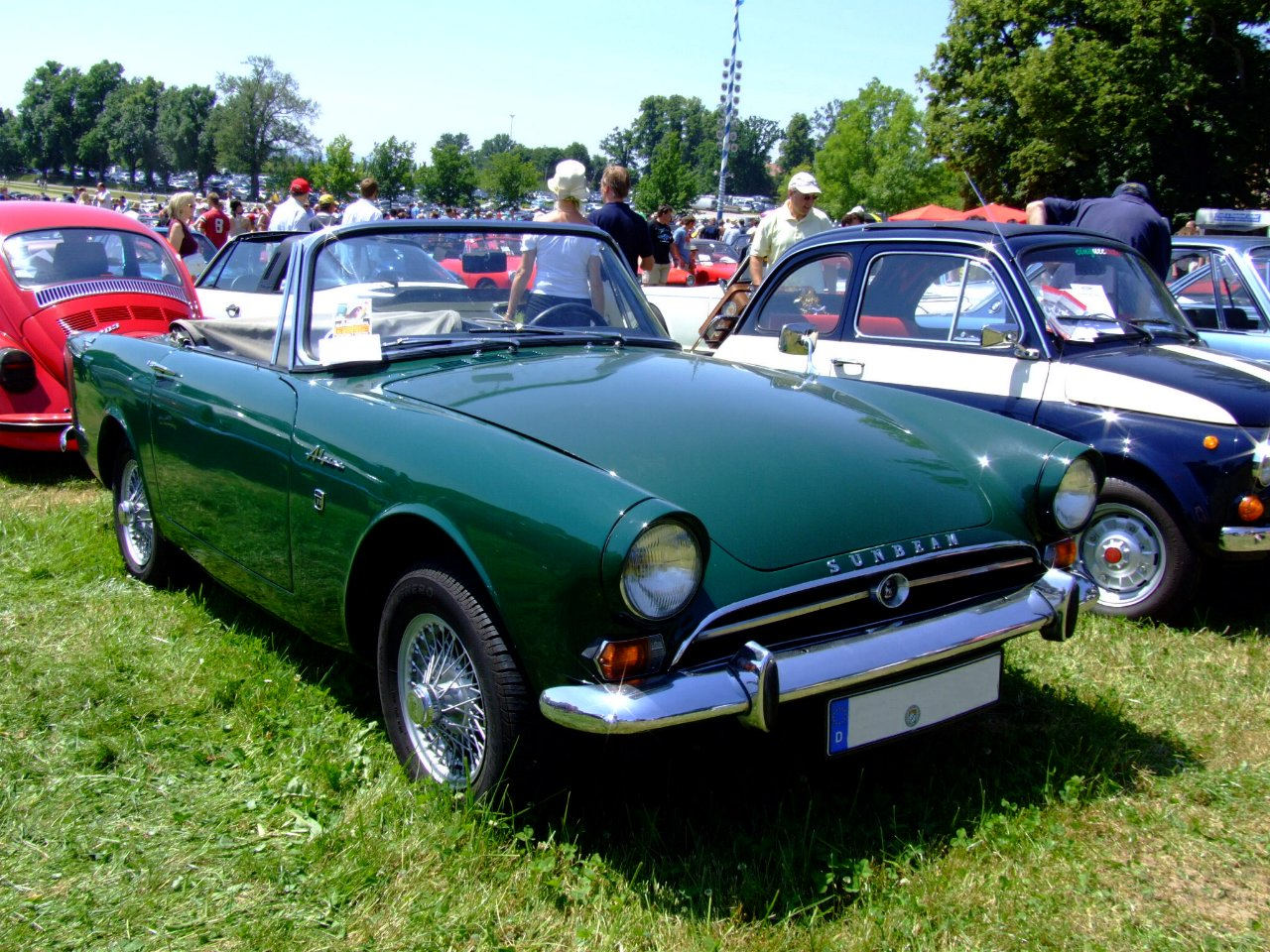 Summary Quelle: selbst fotografiert, 06/2006 Fotograf: Späth Chr. Licensing